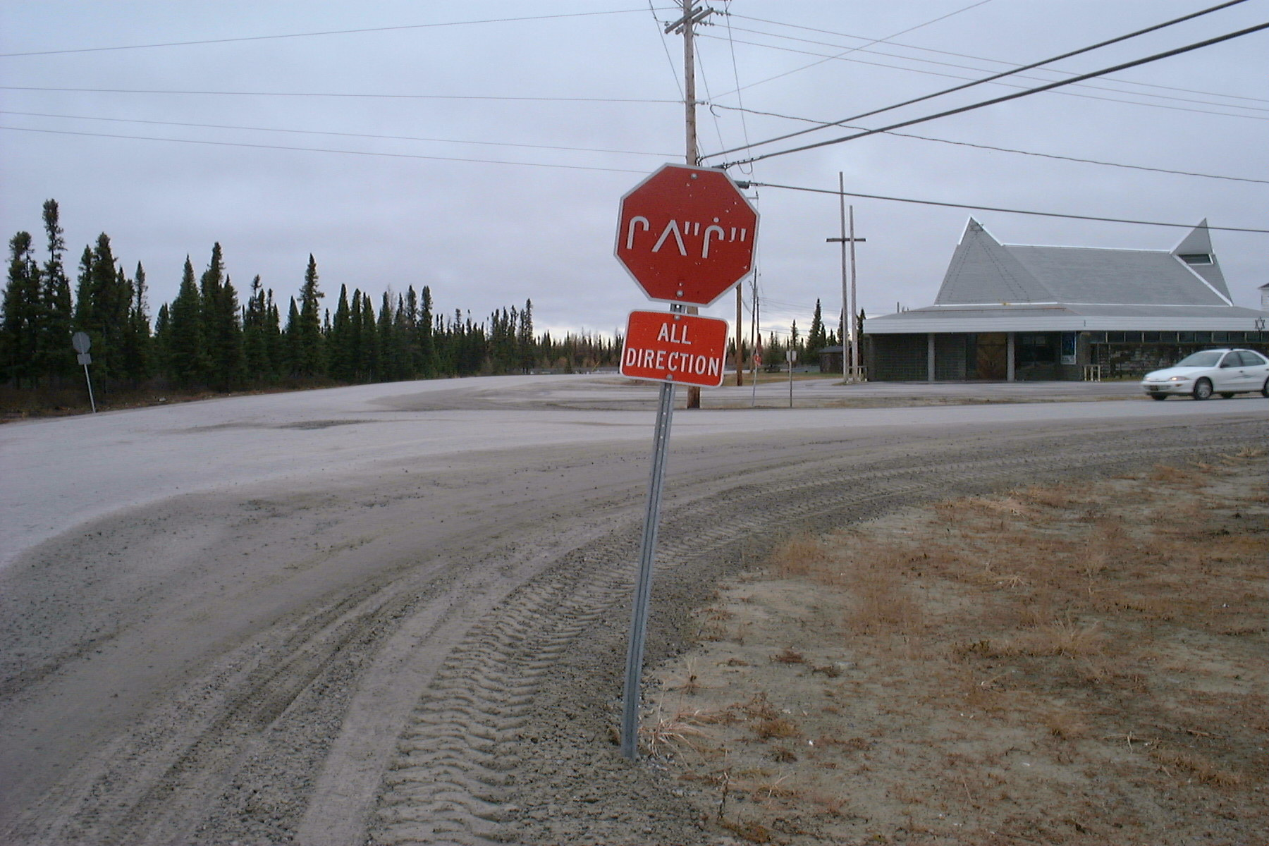 ᒋᐱᐦᒋᐦ stop sign in Cree Nēhiyawēwin / ᓀᐦᐃᔭᐍᐏᐣ: ᒋᐱᐦᒋᐦ